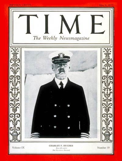 Adm Charles Hughes on TIME Magazine cover